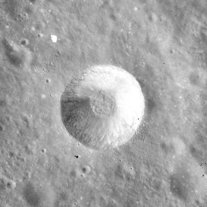 Gibbs D crater, north of Gibbs, on the moon.